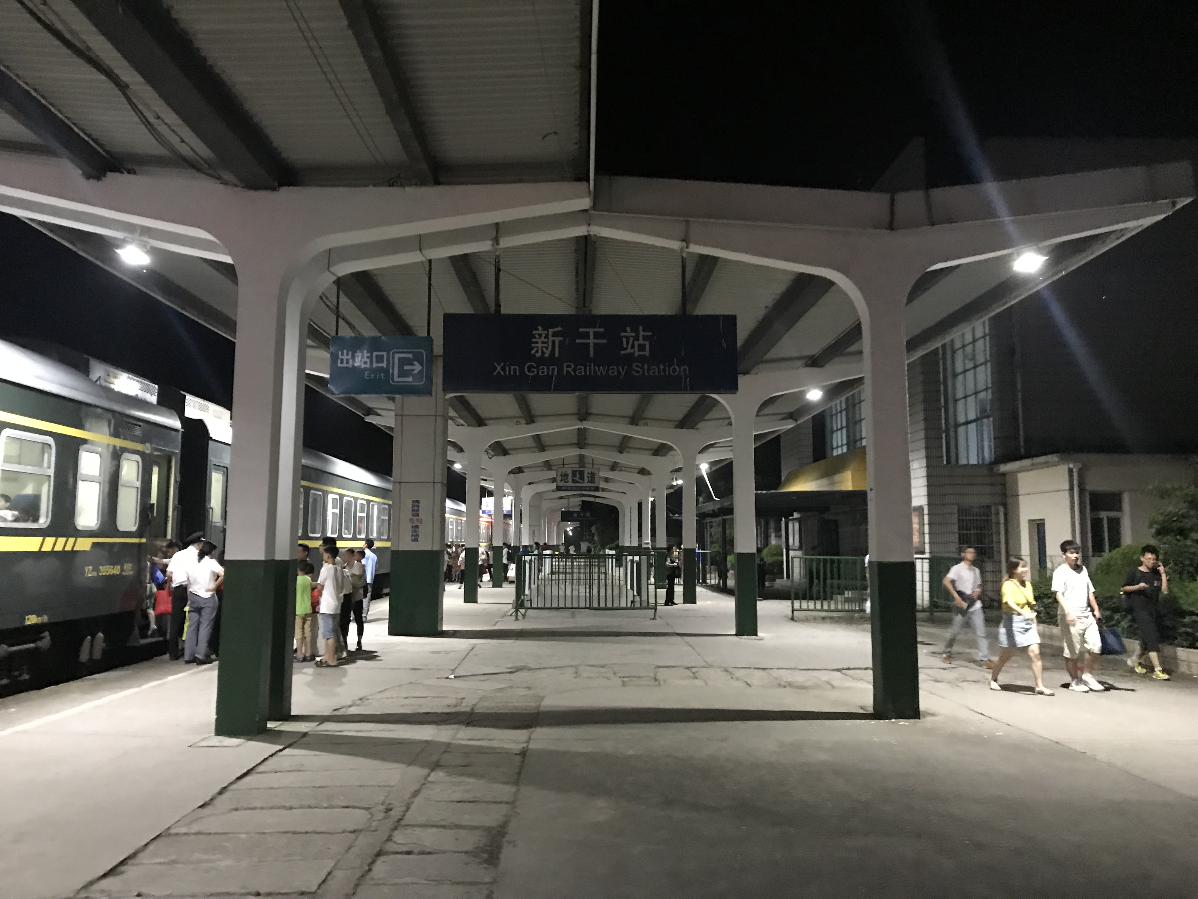 The famous station in "Shinkan County"...